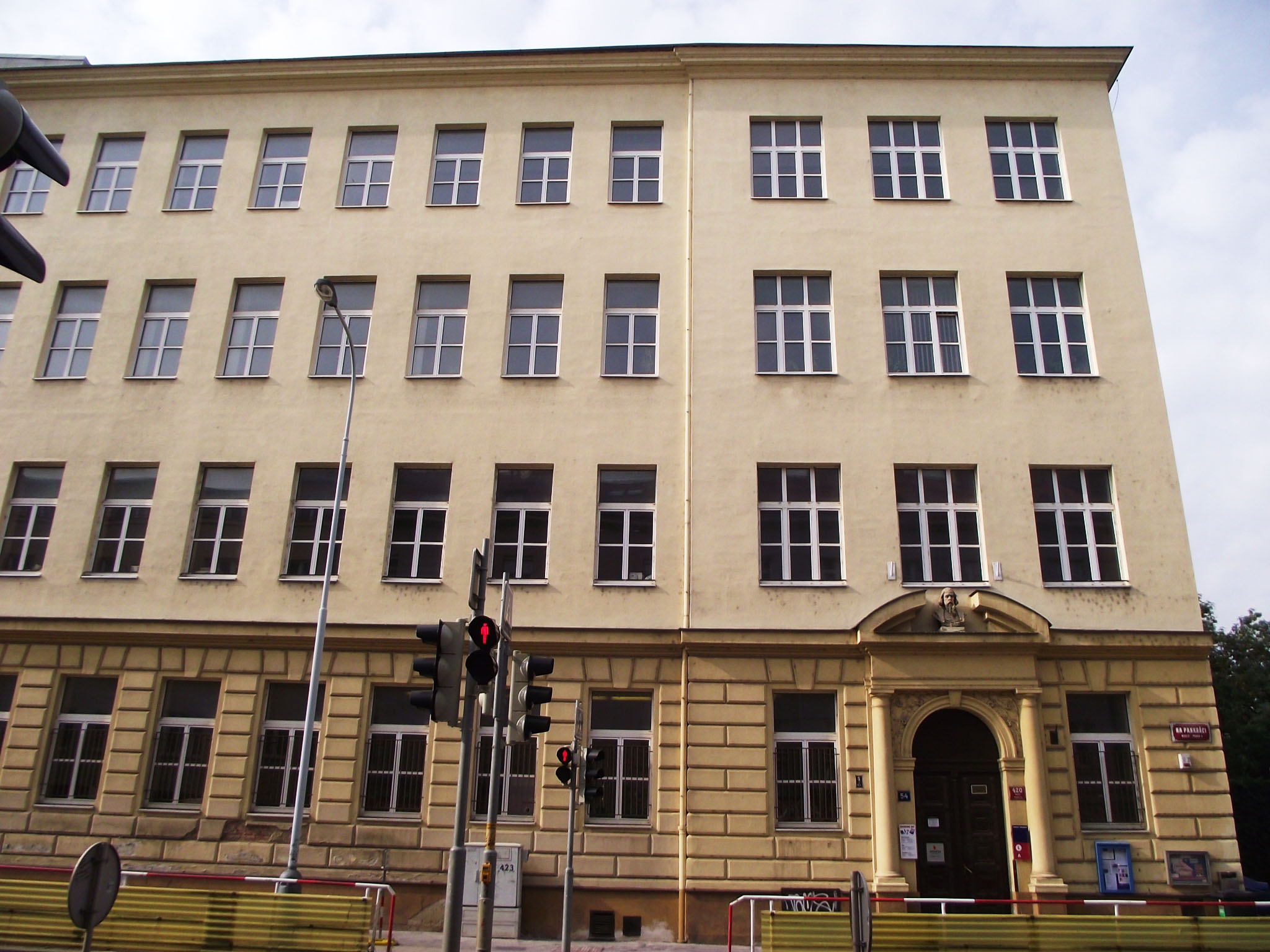 Josef Škvorecký Literary Academy in Prague - building